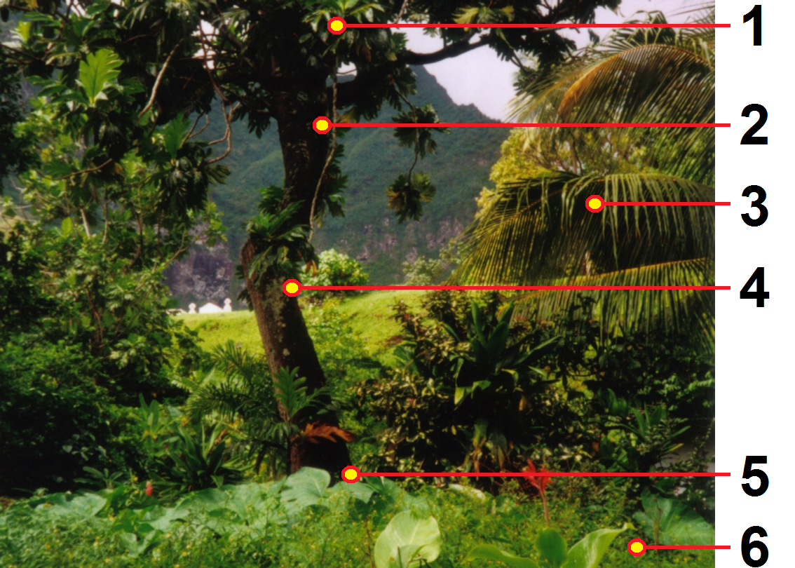 Tropical rainforest, Fatu Hiva Island, Marquesas Islands, French Polynesia